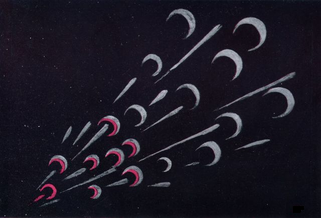 Sudden fright - a Thought Form from Thought-Forms, by Annie Besant & C.W. Leadbeater.